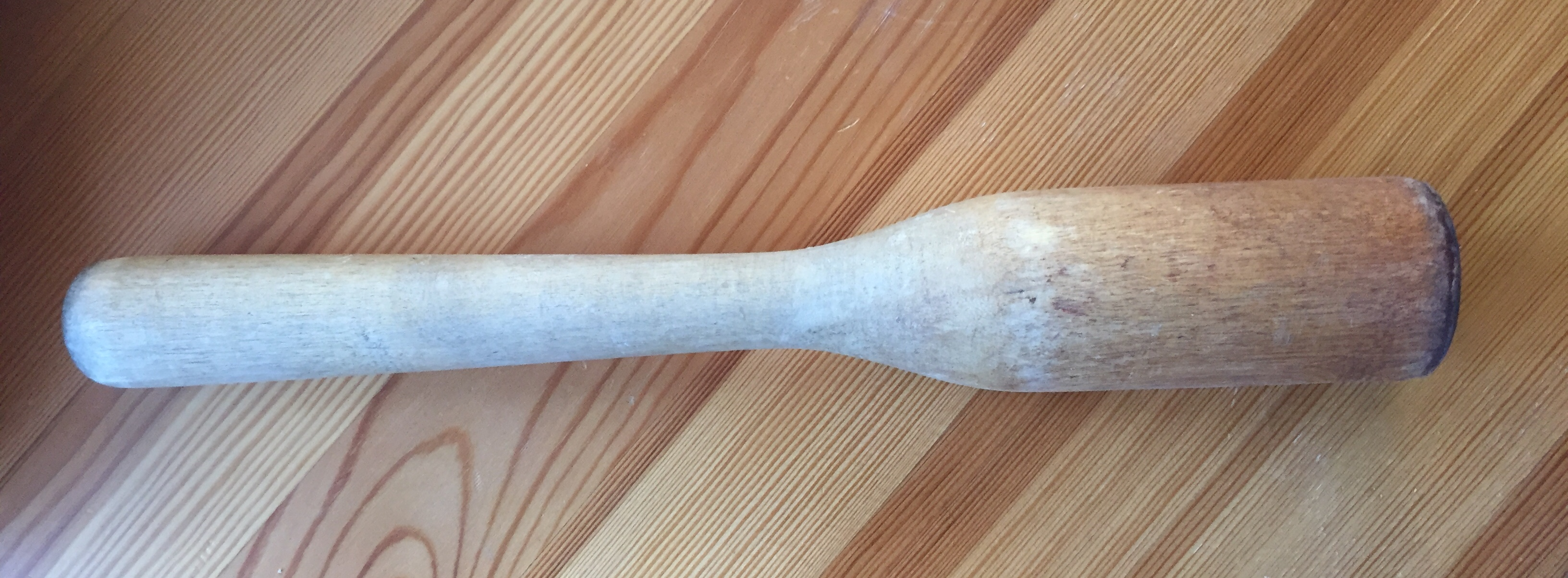 Bludgeon